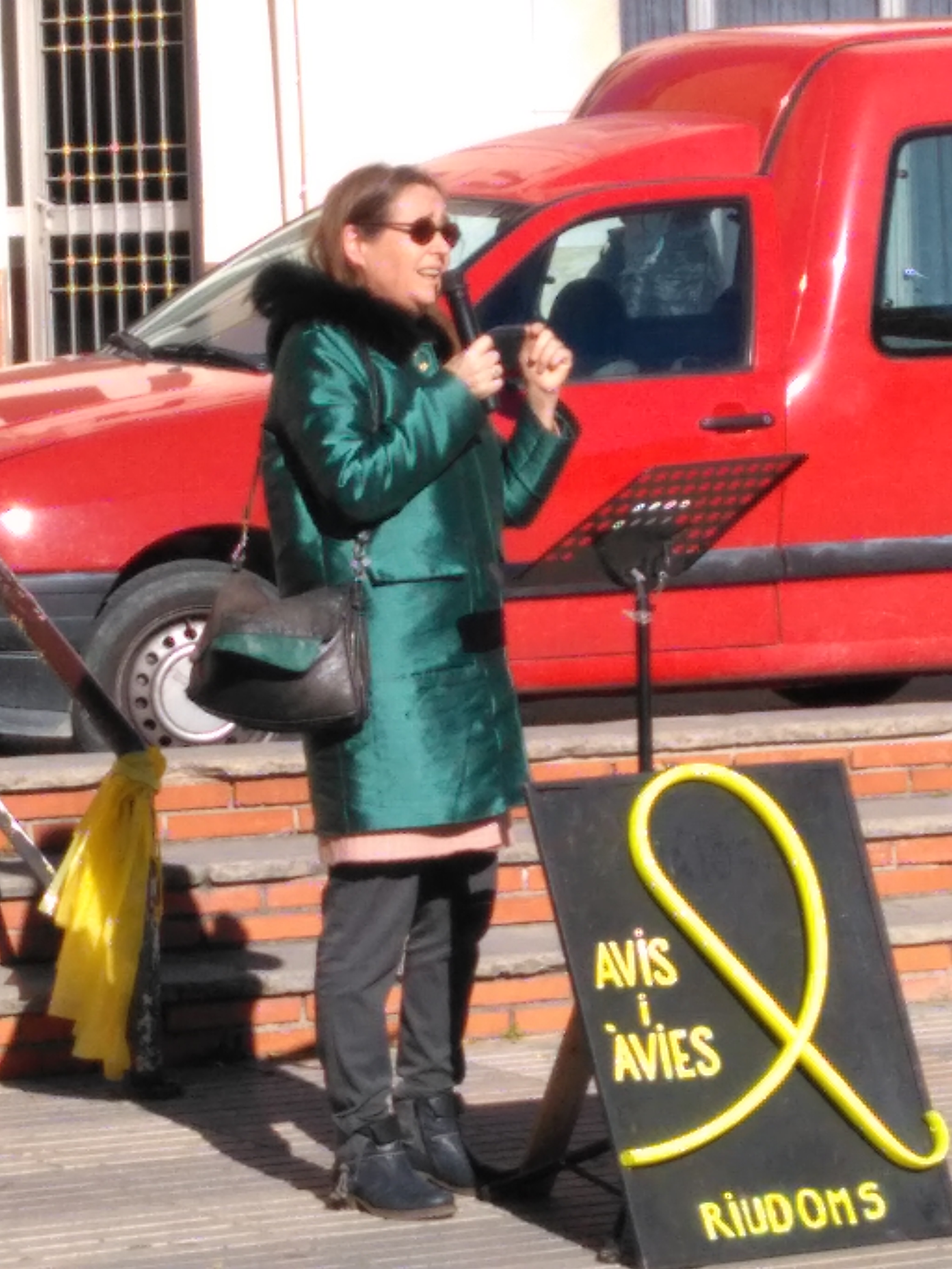 The Swedish MEP Bodil Valero participating in Riudoms in a demonstration the 23th January 2019 asking for the release of political prisoners due to the 2017 Catalan independence referendum.